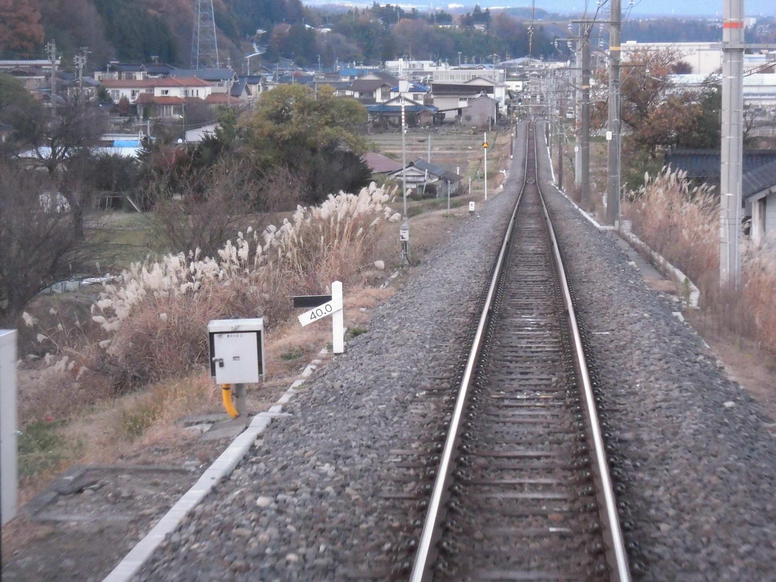 The slope of 40 per mill at JR Iida line